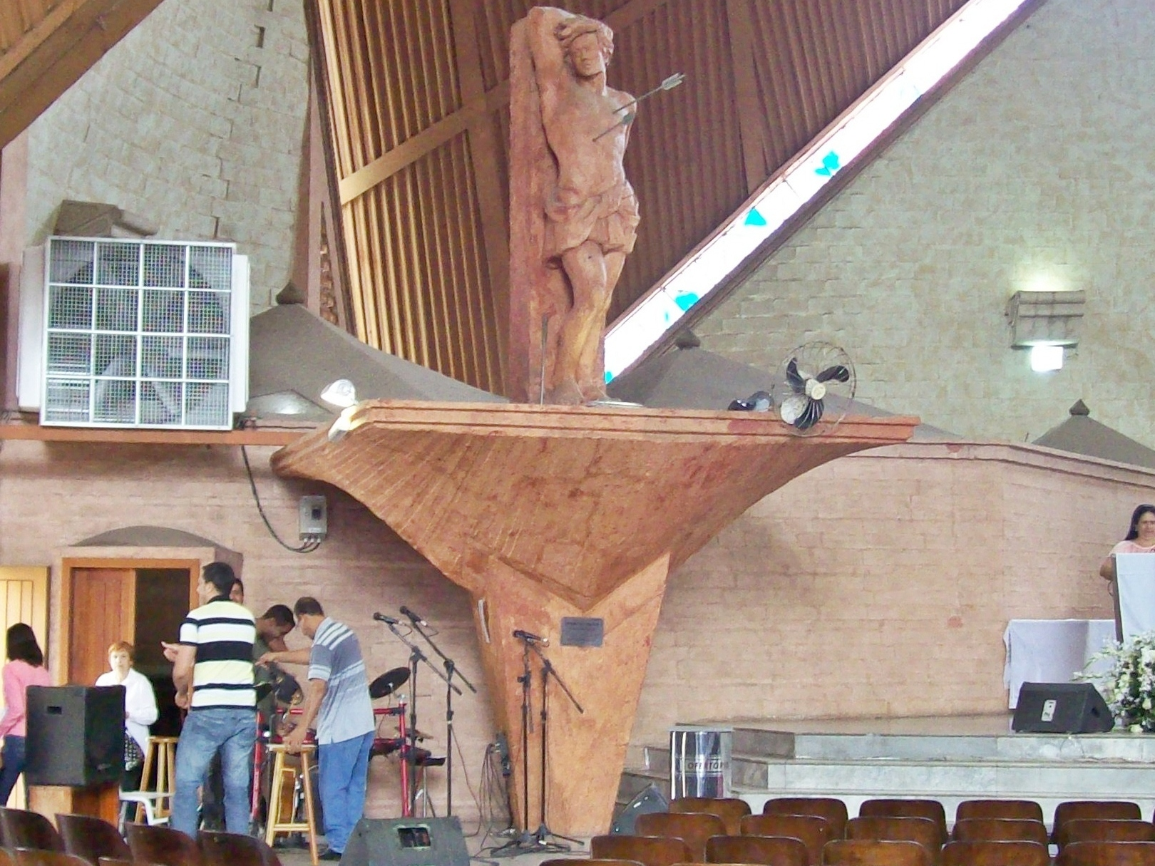 Sculpture of Saint Sebastian in the Saint Sebastian Cathedral, in Coronel Fabriciano, Minas Gerais, Brasil.